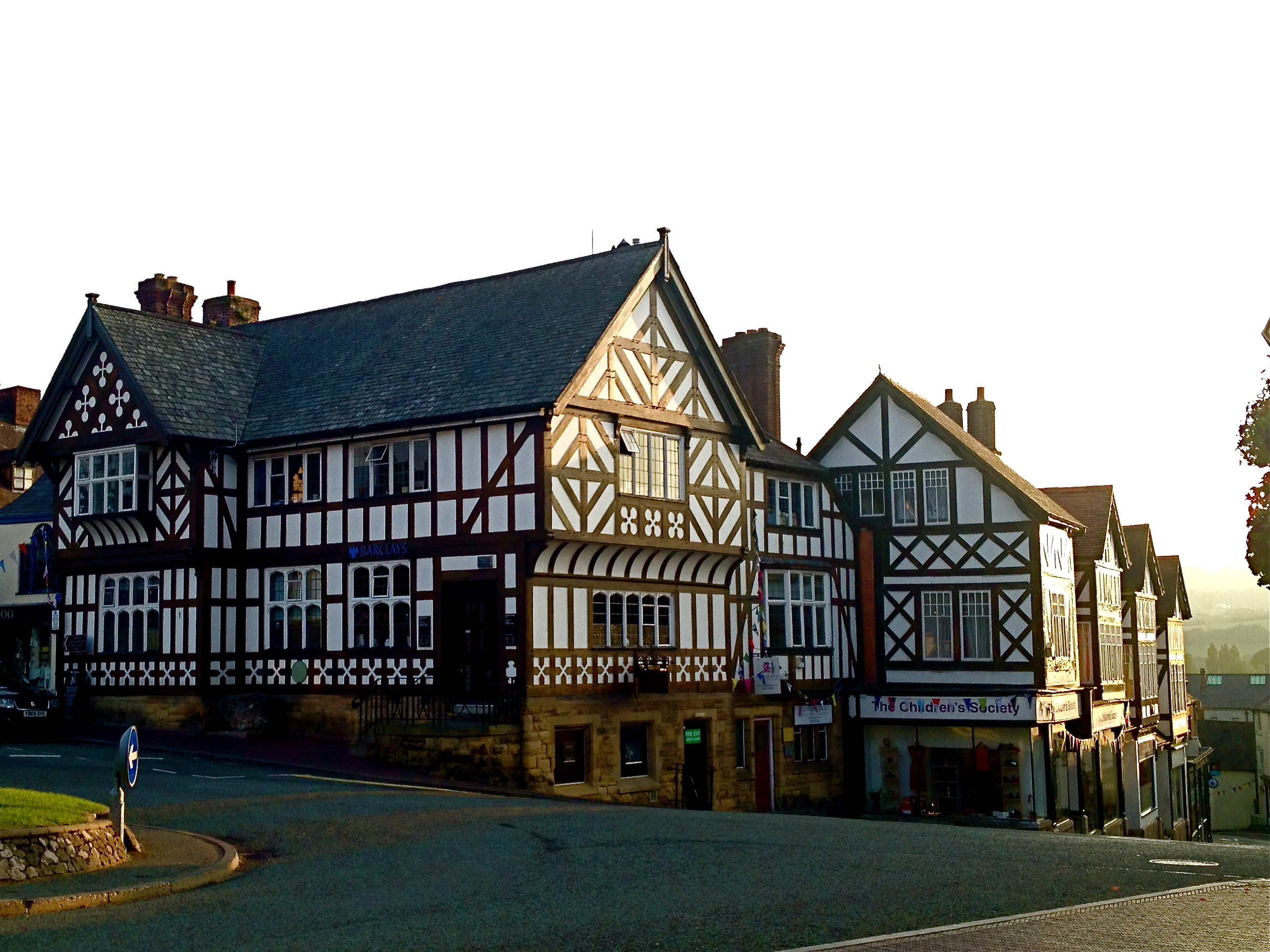 Exmewe Hall, on St Peter's Square, is now a Barclays Bank, and was reconstructed in the 20th century. The plaque on the front of the building indicates the historic stone below, the Maen Huail, a square block "On which tradition states, King Arthur beheaded Huail, brother of Gildas the historian."